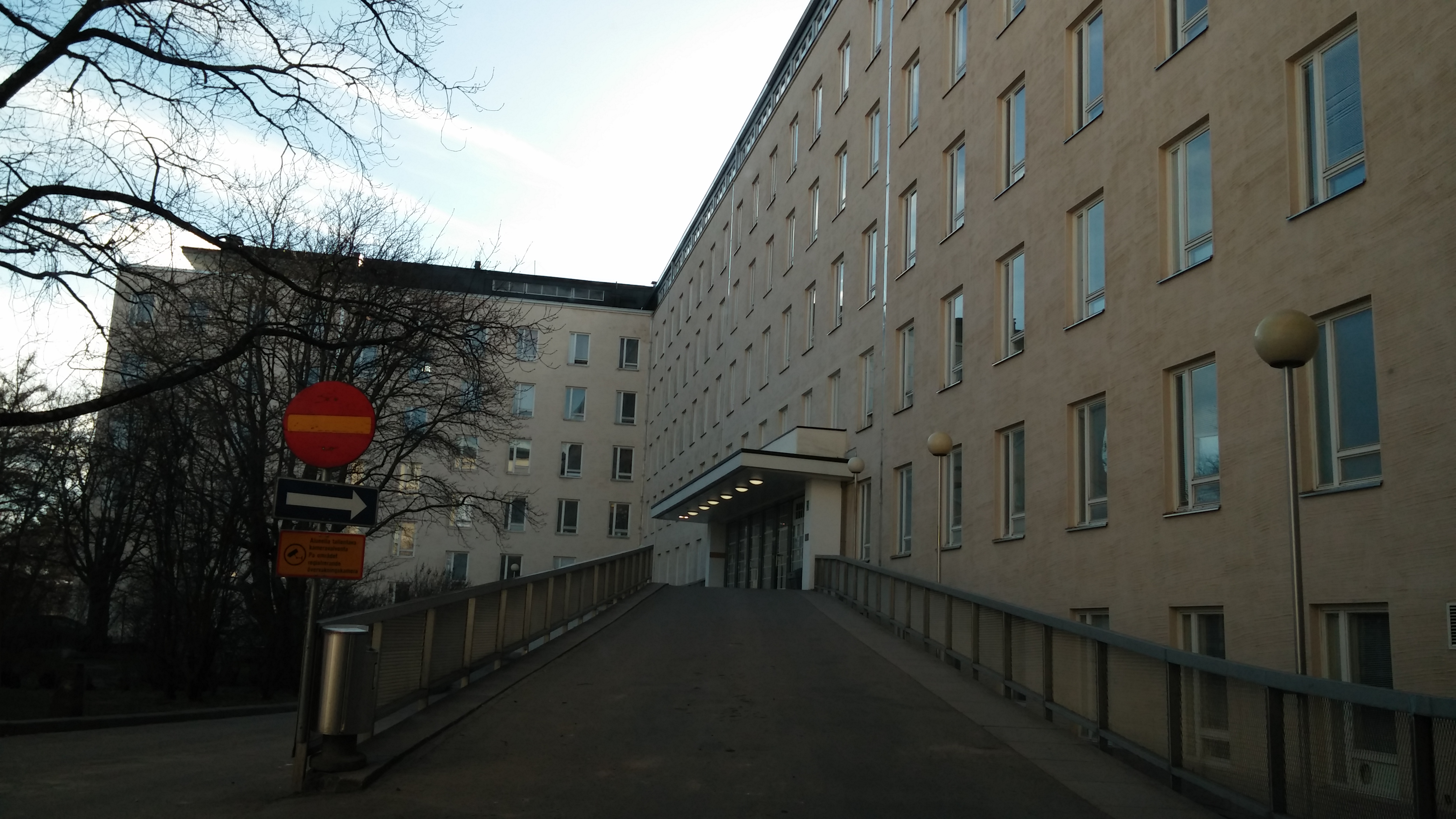 The Women's Hospital, Helsinki, Finland